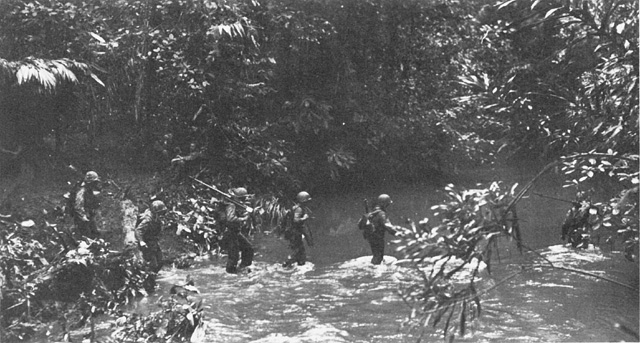 US Marines cross a creek on the Dragons Peninsula on New Georgia Island during the New Georgia campaign in July, 1943.